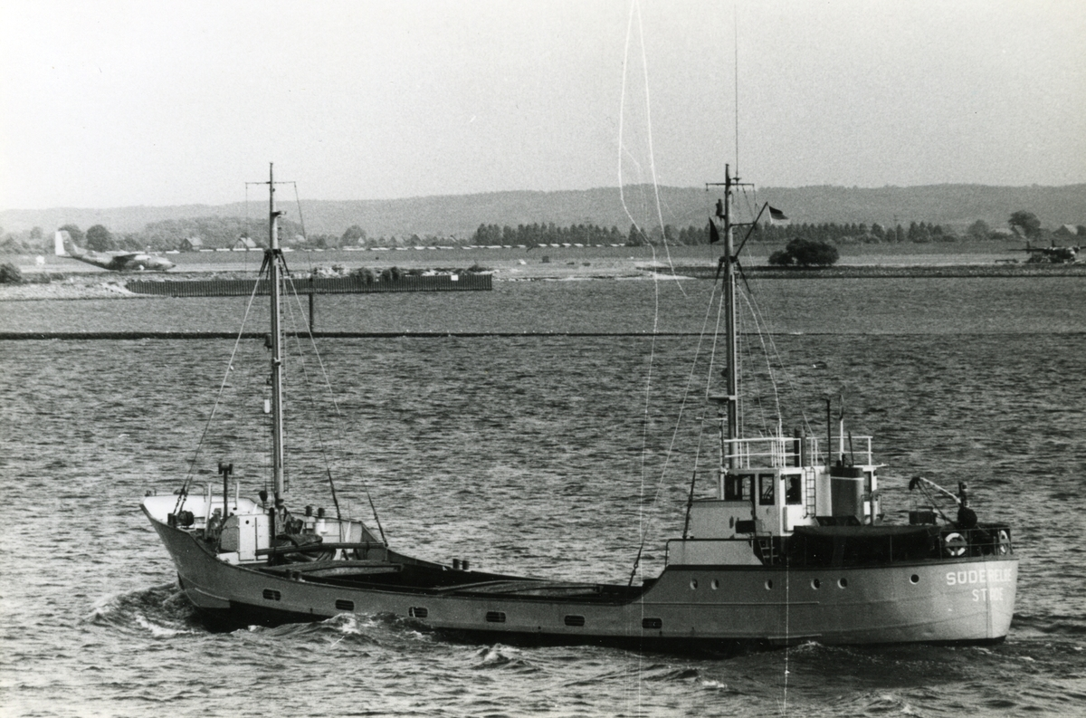 Type Weselmann coaster SÜDERELBE (IMO 5342946) built at Stader Schiffswerft, Stade, as RENATE (yard № 160, delivered: 03-1952), later names: 1962 SÜDERELBE, 1989 CUM DEO (lengthened and deepened 1992), 1996 RENATE; photo by J. Robert Boman (1926 - 2002), copyright owned by Sjöhistoriska museet.